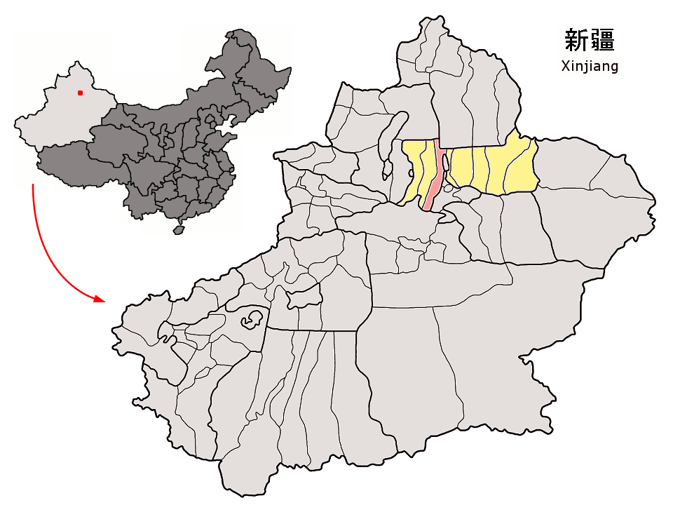 Location of Changji City (pink) and Changji Prefecture (yellow) within Xinjiang autonomous region of China Map drawn in september 2007 using various sources, mainly : Xinjiang Uygur autonomous region administrative regions GIS data: 1:1M, County level, 1990 Xinjiang Counties map from